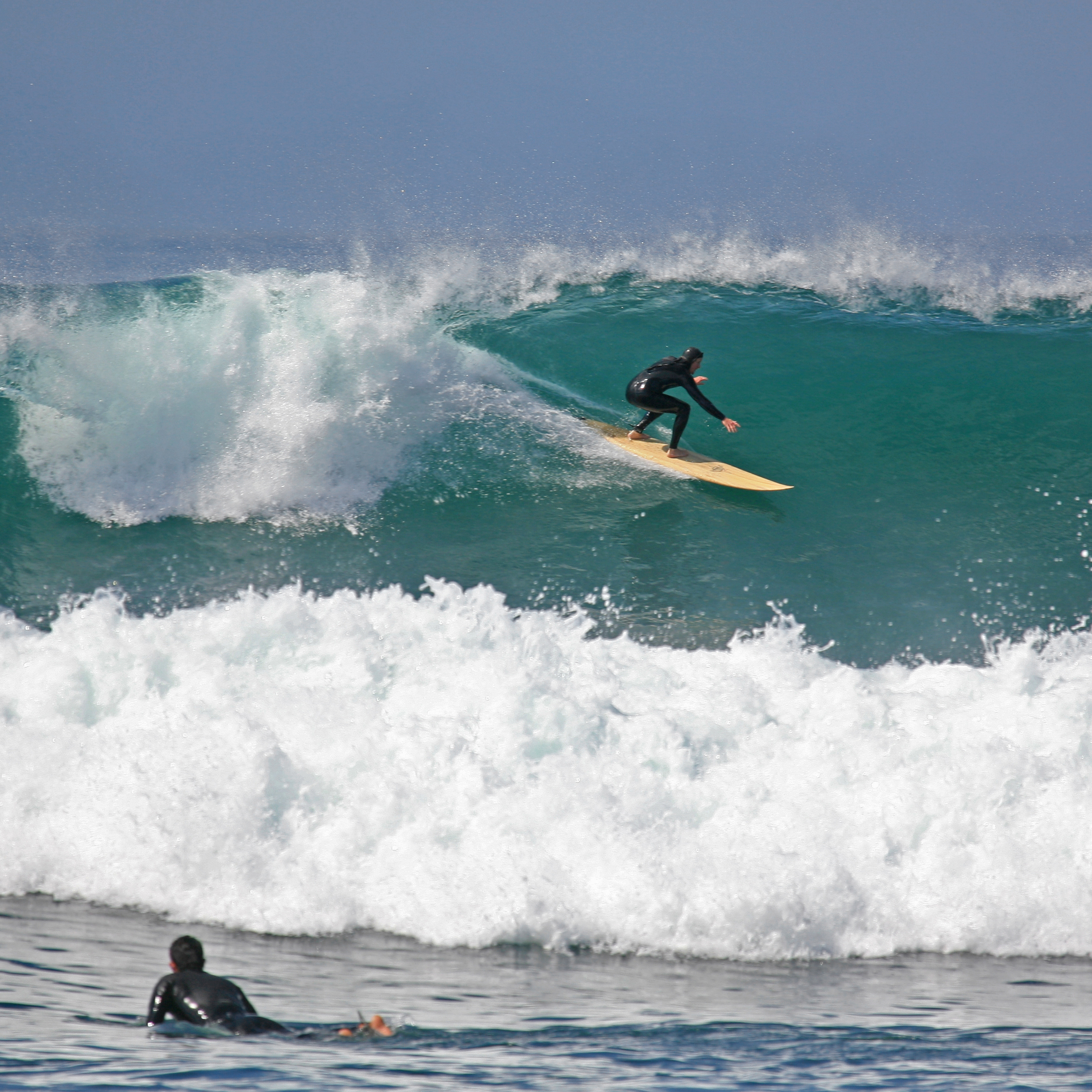 Surfing in San Diego, California, March 2007